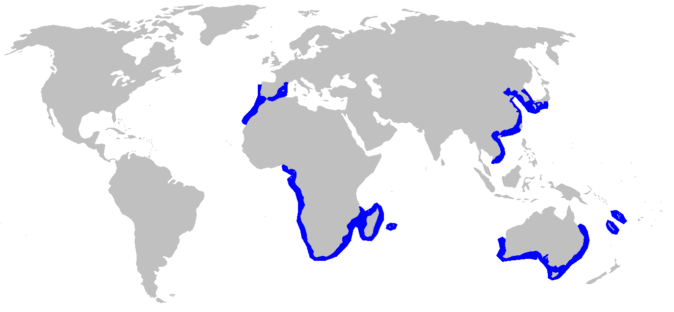 Distribution map for Squalus megalops